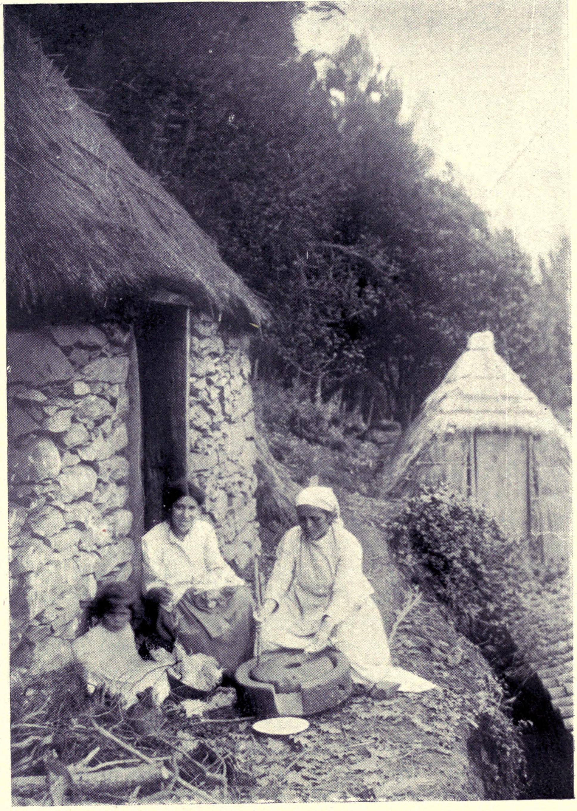 "Peasants Grinding Maize" in Madeira: Old and New